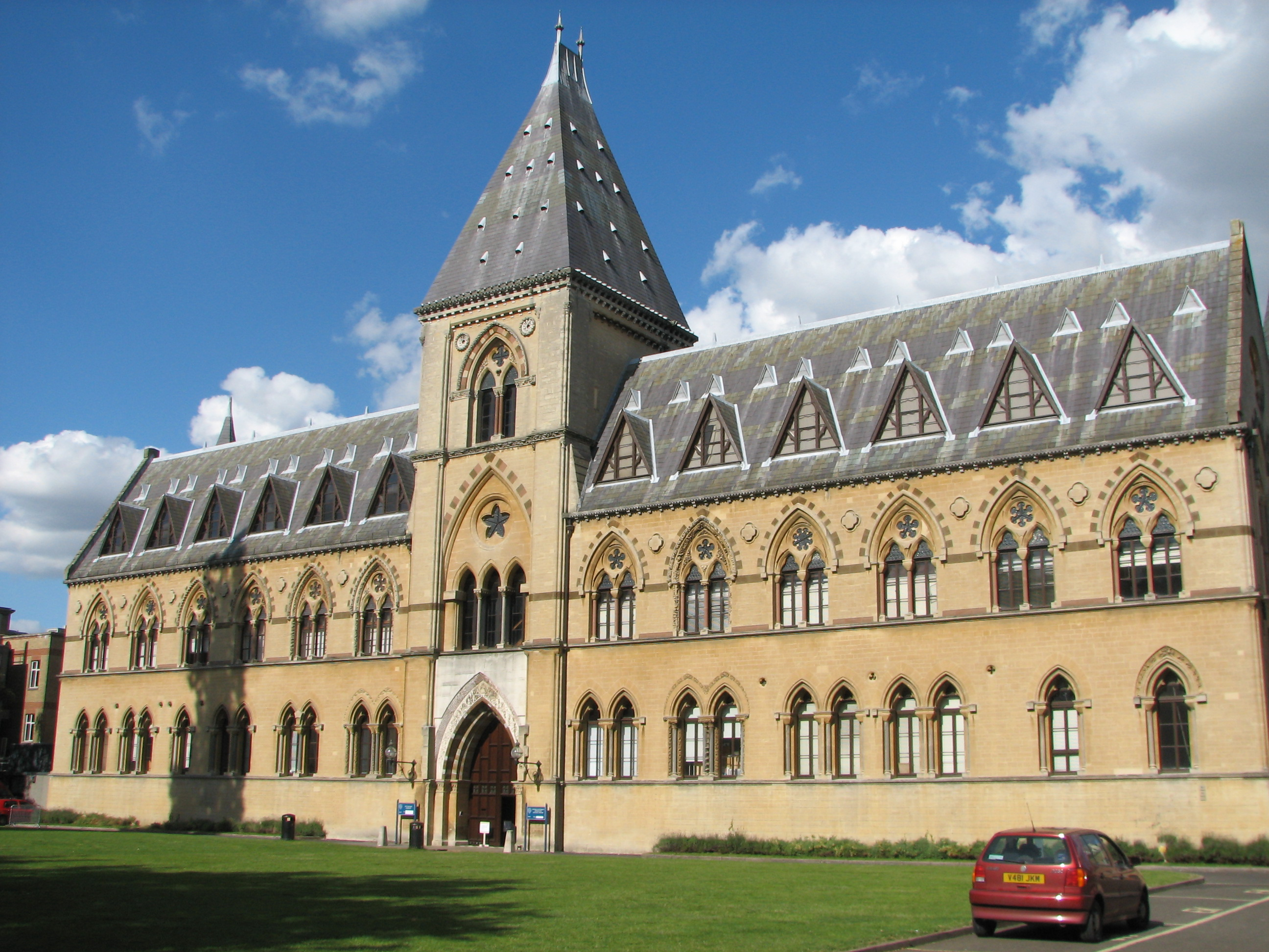 Natural History Museum and Pitt River Museum